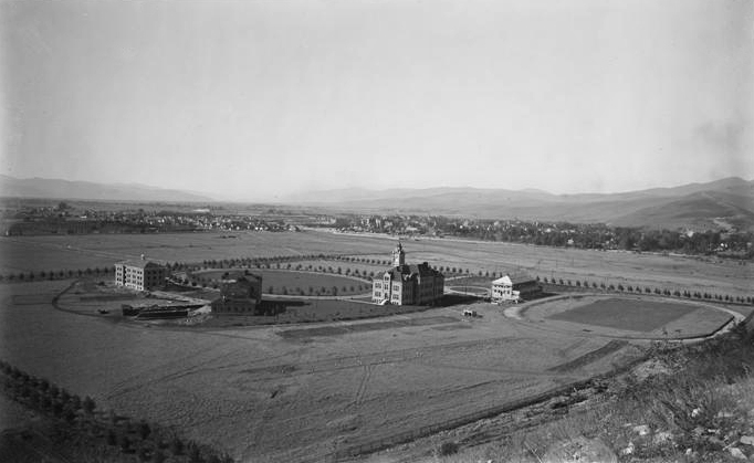 old picture of the original University of Montana campus showing University Hall, oval and surrounding buildings.